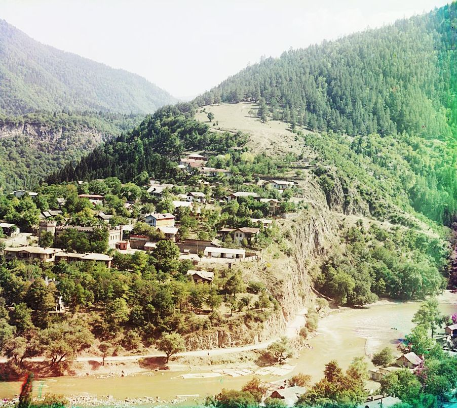 View of Borzhom from Torskaia road